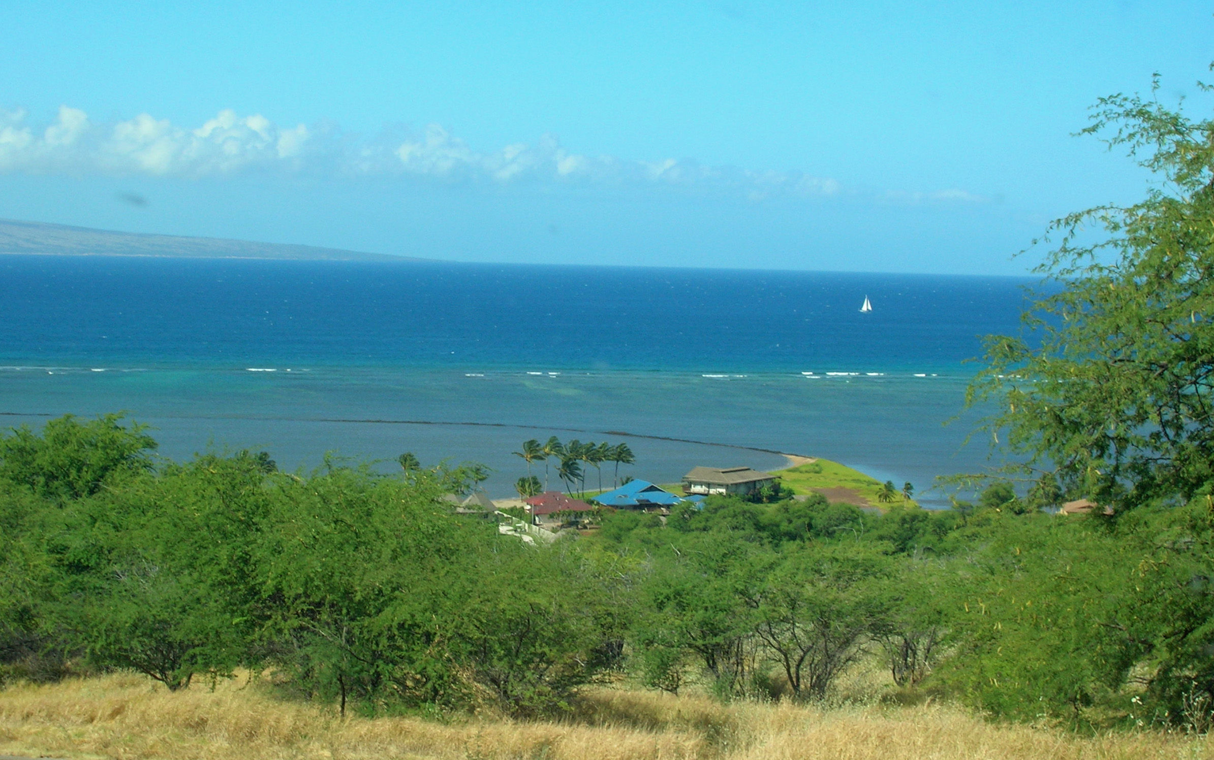 The area of Kawela on the island of Molokai n Hawaii was the site of two important battles, and has several historic sites